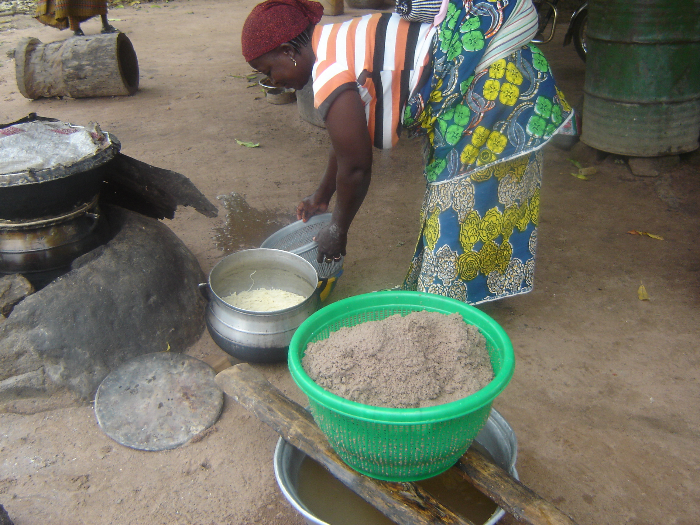 This is an image of food from Benin